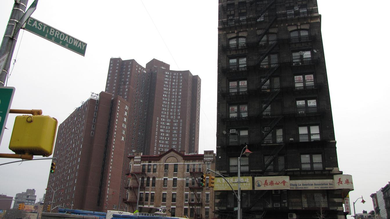 Changle Association at East Broadway